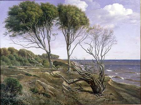 A Coastal Landscape